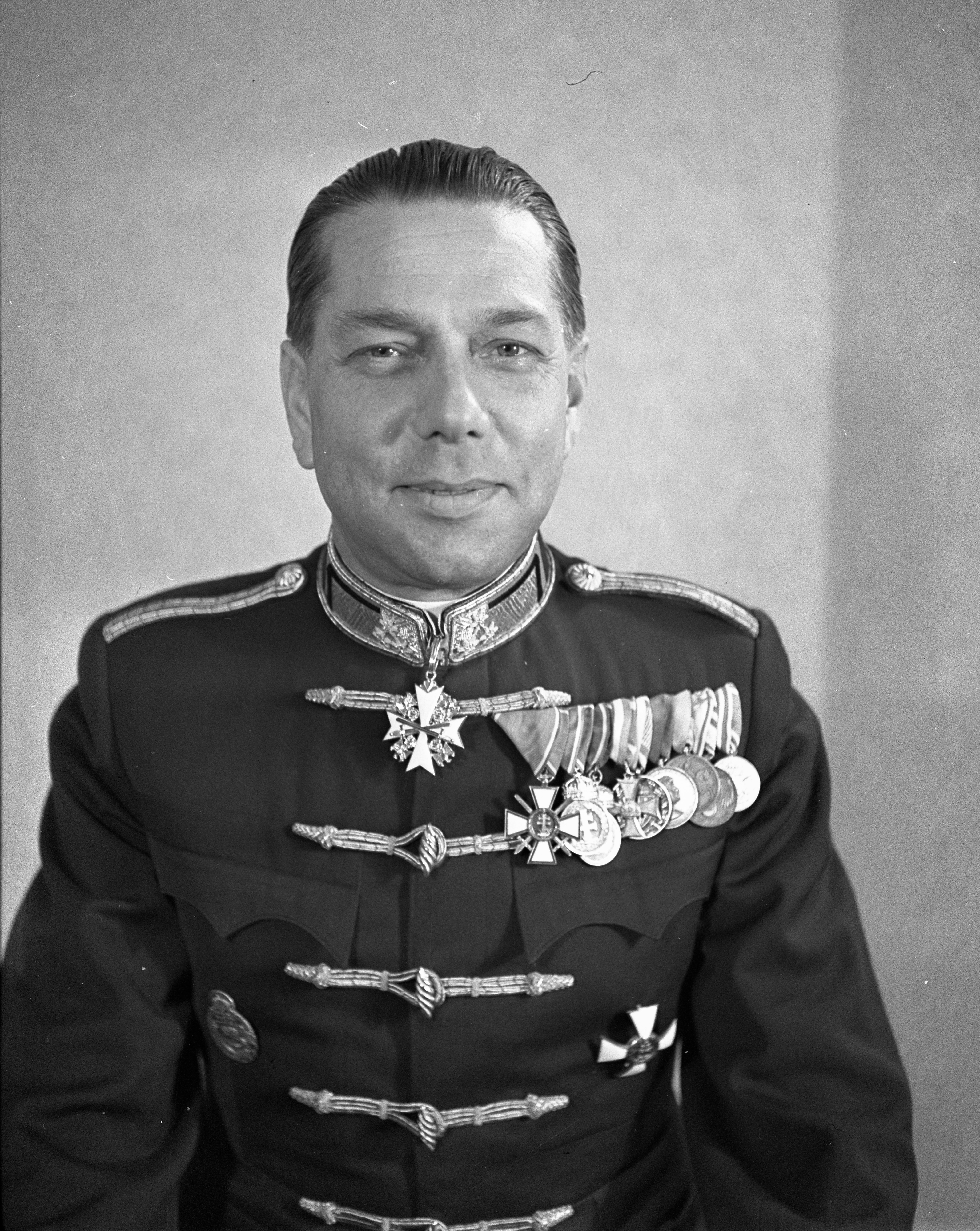 Colonel? of Hungary Tags: soldier, portrait, medal